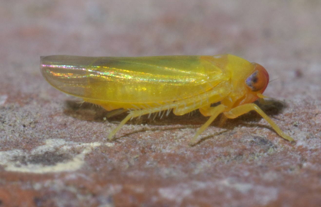 Alebra rubrafrons, Family: Leafhoppers, Size: 3.5 mm, ID Confidence: 98